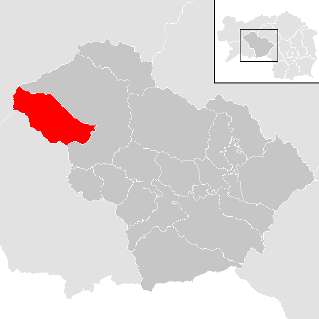 district Murtal in Styria, Austria